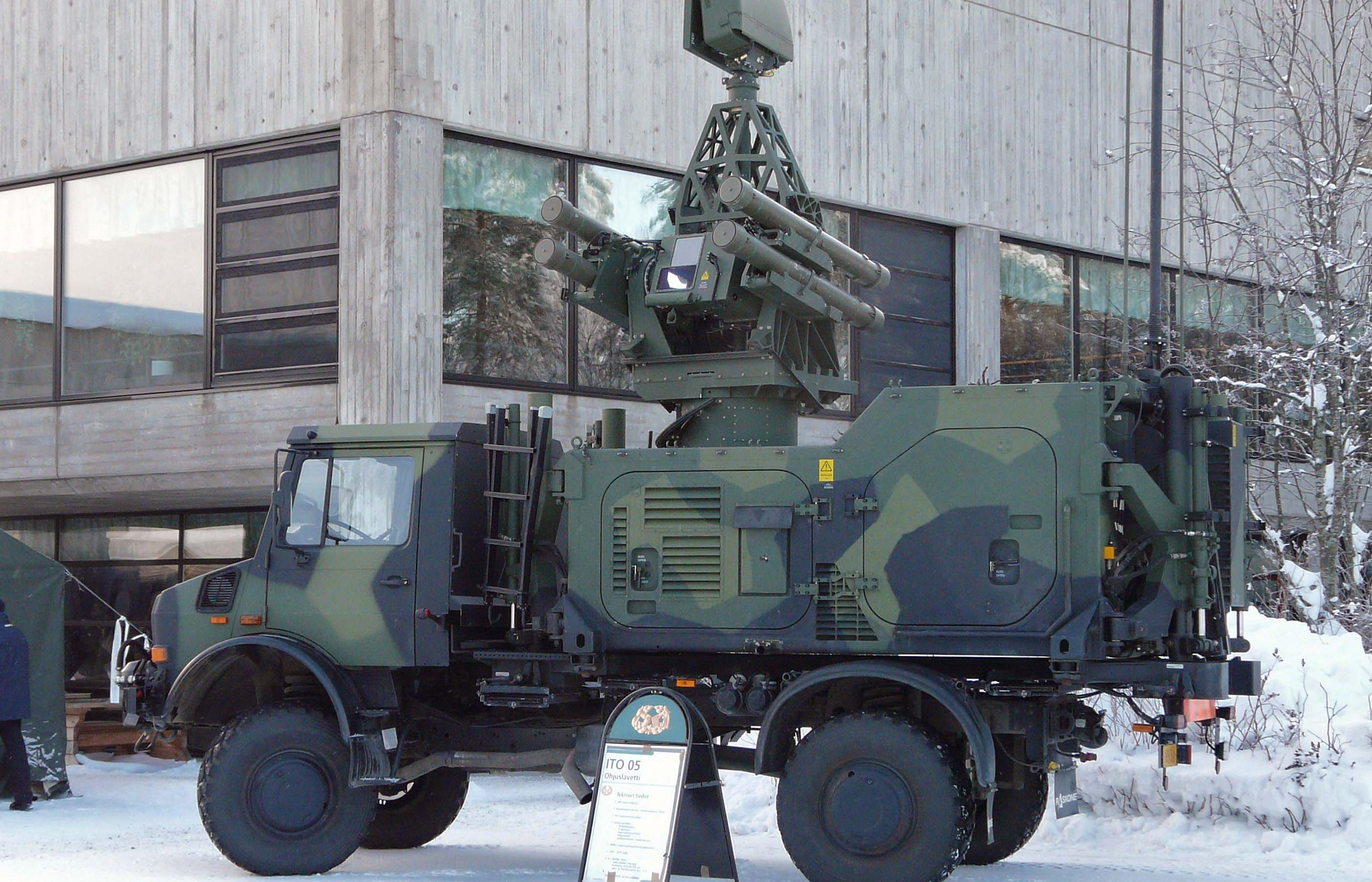 ItO 2005 (ASRAD-R) surface-to-air missile system mounted on Unimog 5000 truck showing at the equipment presentation on the day for the soldier's oath in Karelia Brigade in 2010 February.